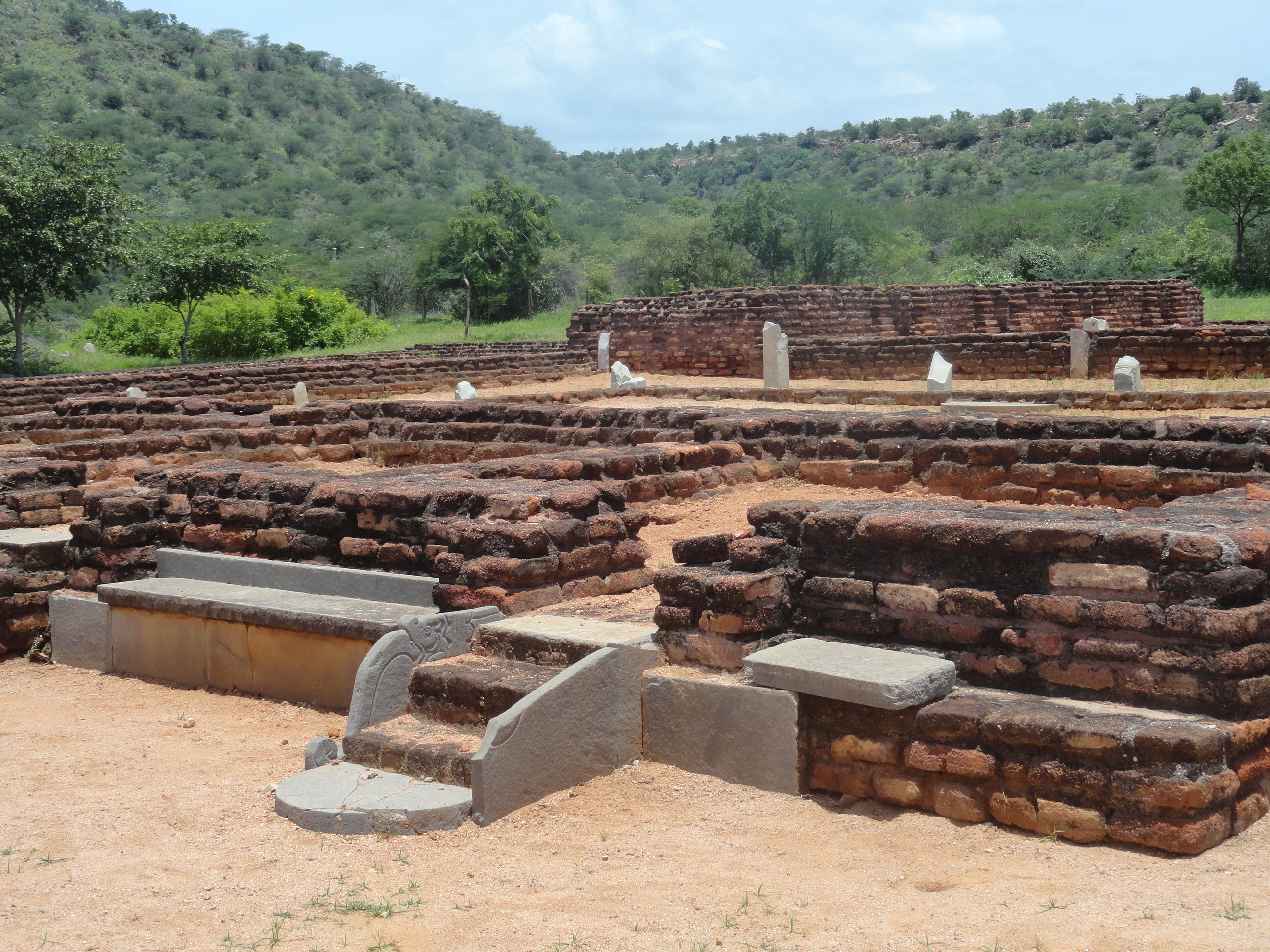 అనుపులో నాగార్జునుని కాలంనాటి కట్టడాలు....14